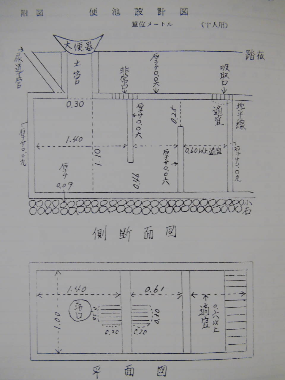 The toilet design to kill the parasite eggs rot let issued Yamanashi Prefecture in 1943